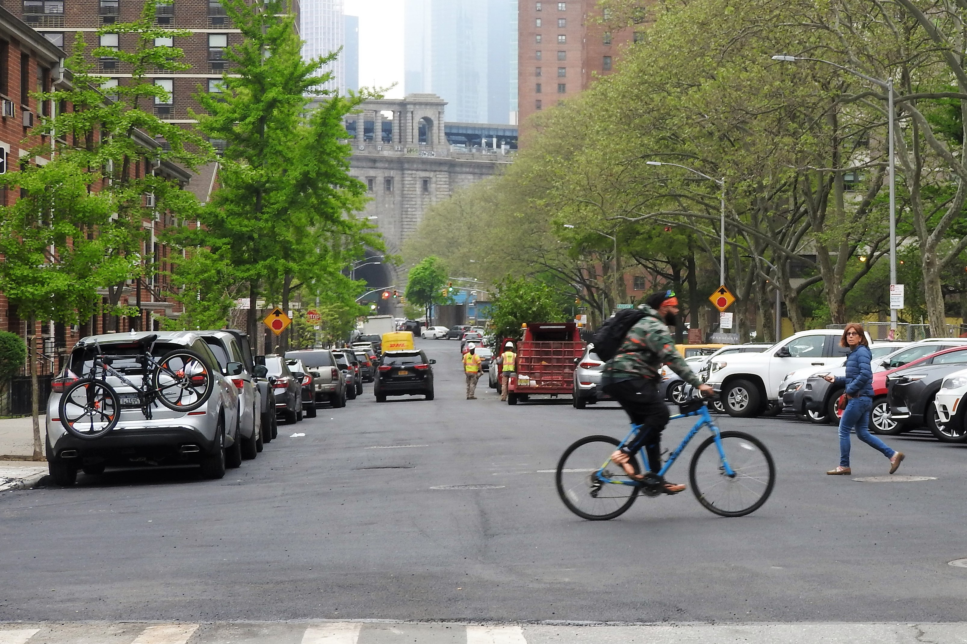 Looking west across Clinton Street and along Cherry Street towards Manhattan Bridge.